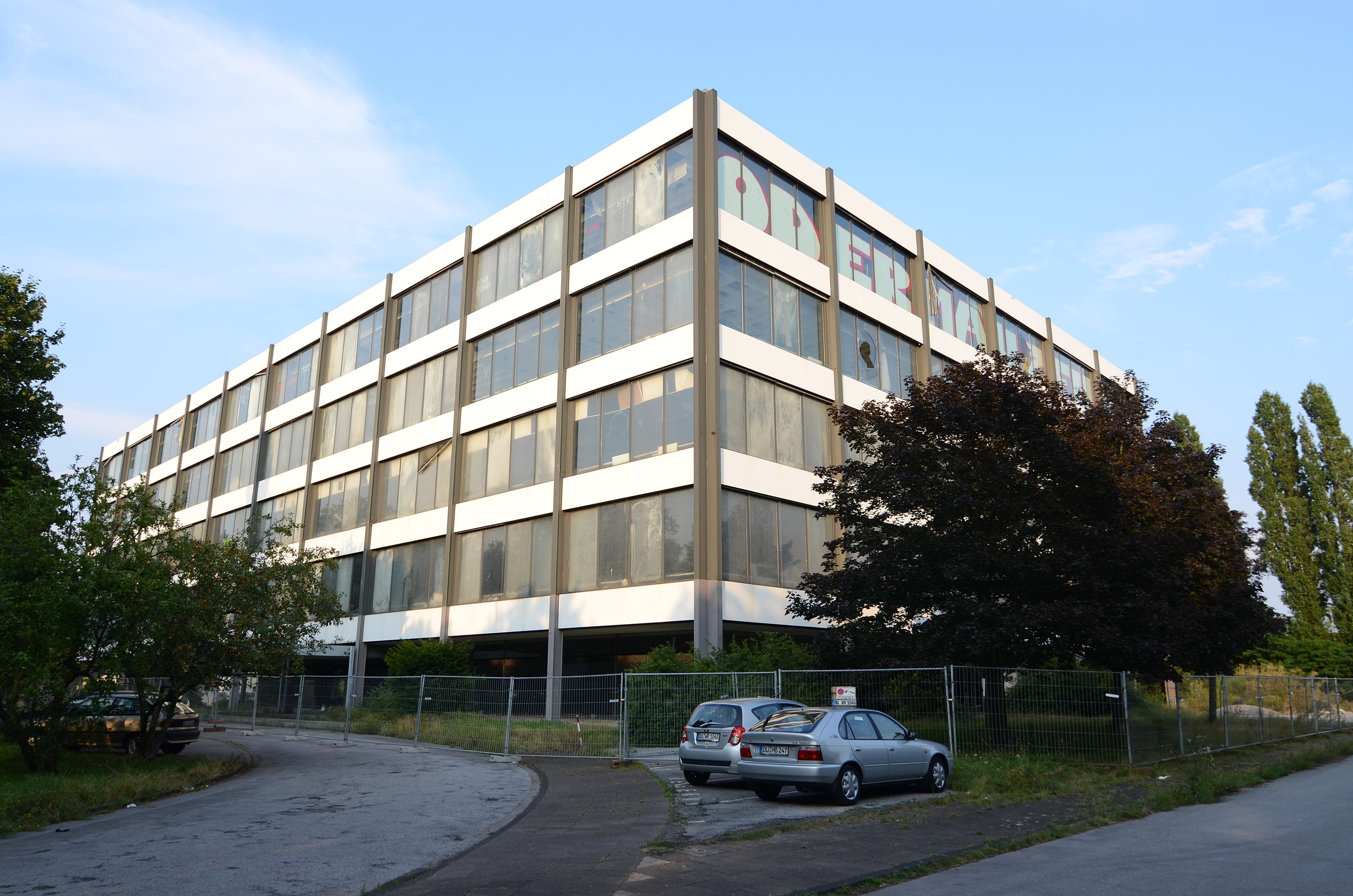 Duisburg (North Rhine-Westphalia, Germany) – borough Rheinhausen, district Mitte – former administration building of Krupp-Industrietechnik – view from west This photograph was taken with a Nikon D7000.